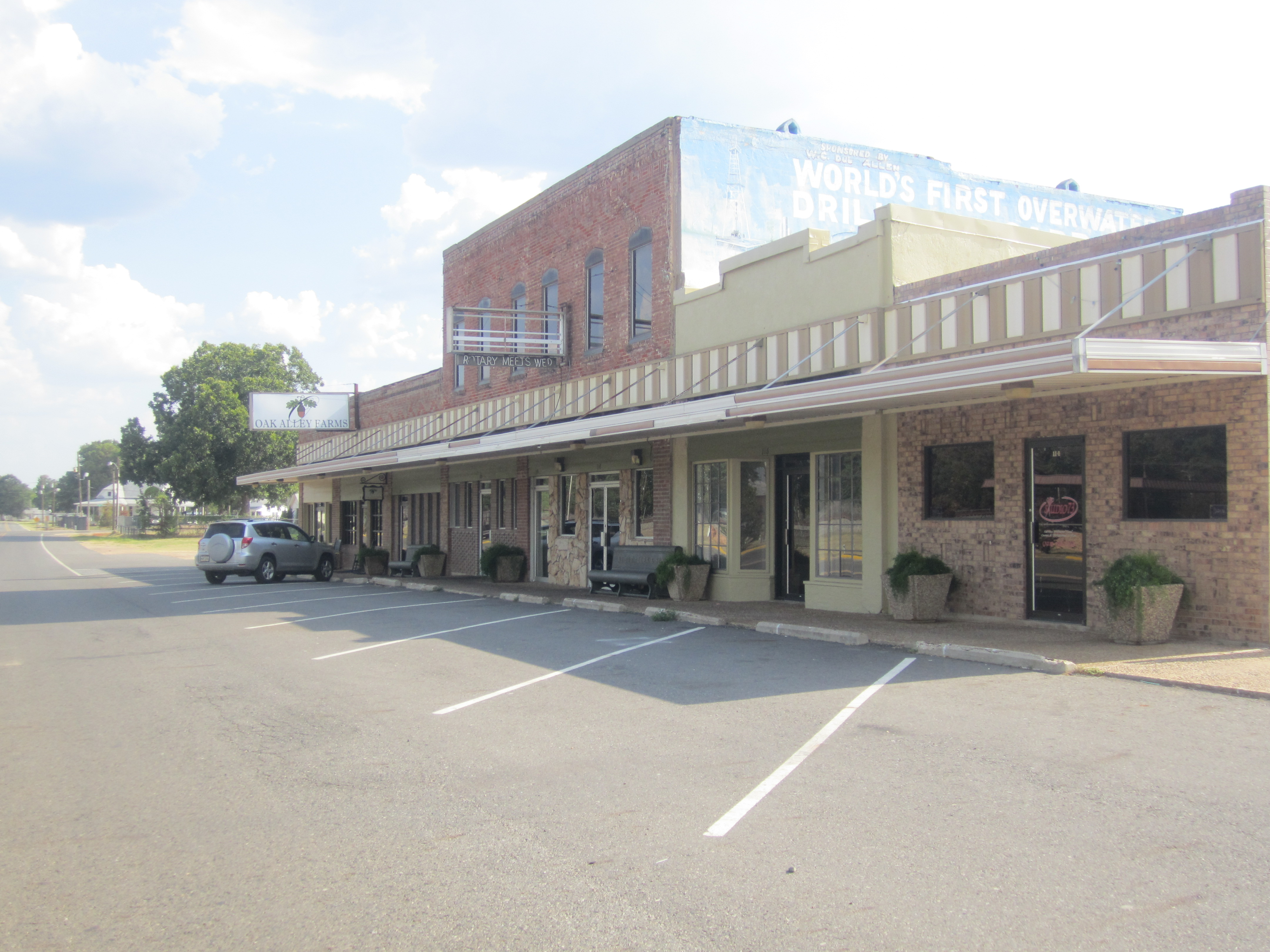 I took photo of downtown Oil City, LA, with Canon camera.